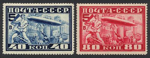 Stamp of USSR